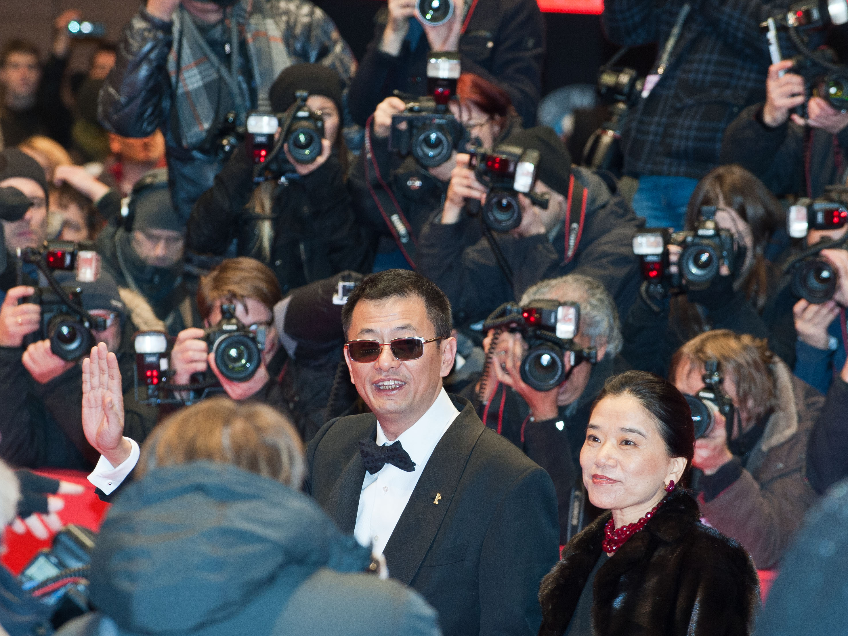 Chinese Hongkong Director Wong Kar-Wai at the Berlin Film Festival 2013